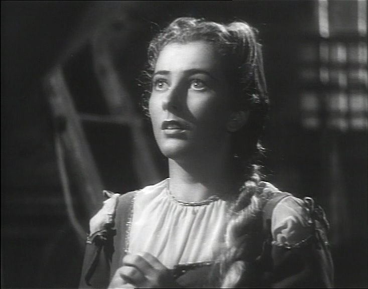 screenshot from the film Cena delle beffe (1941)